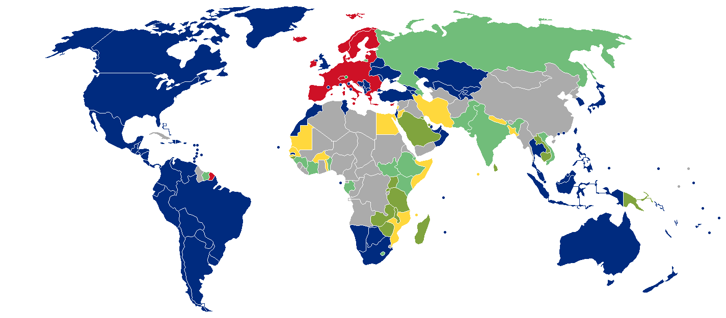 Visa requirements for holders of regular Liechtenstein passports Liechtenstein Freedom of movement Visa not required Visa on arrival eVisa Visa may be obtained online or on arrival Visa must be obtained in advance